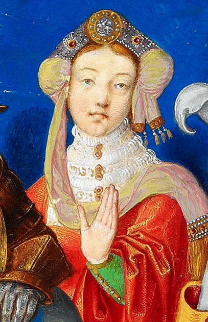 Henry of Burgundy, Count of Portugal (1066–1112) and his wife, Theresa of León (1080-1130), in a 16th-century miniature.